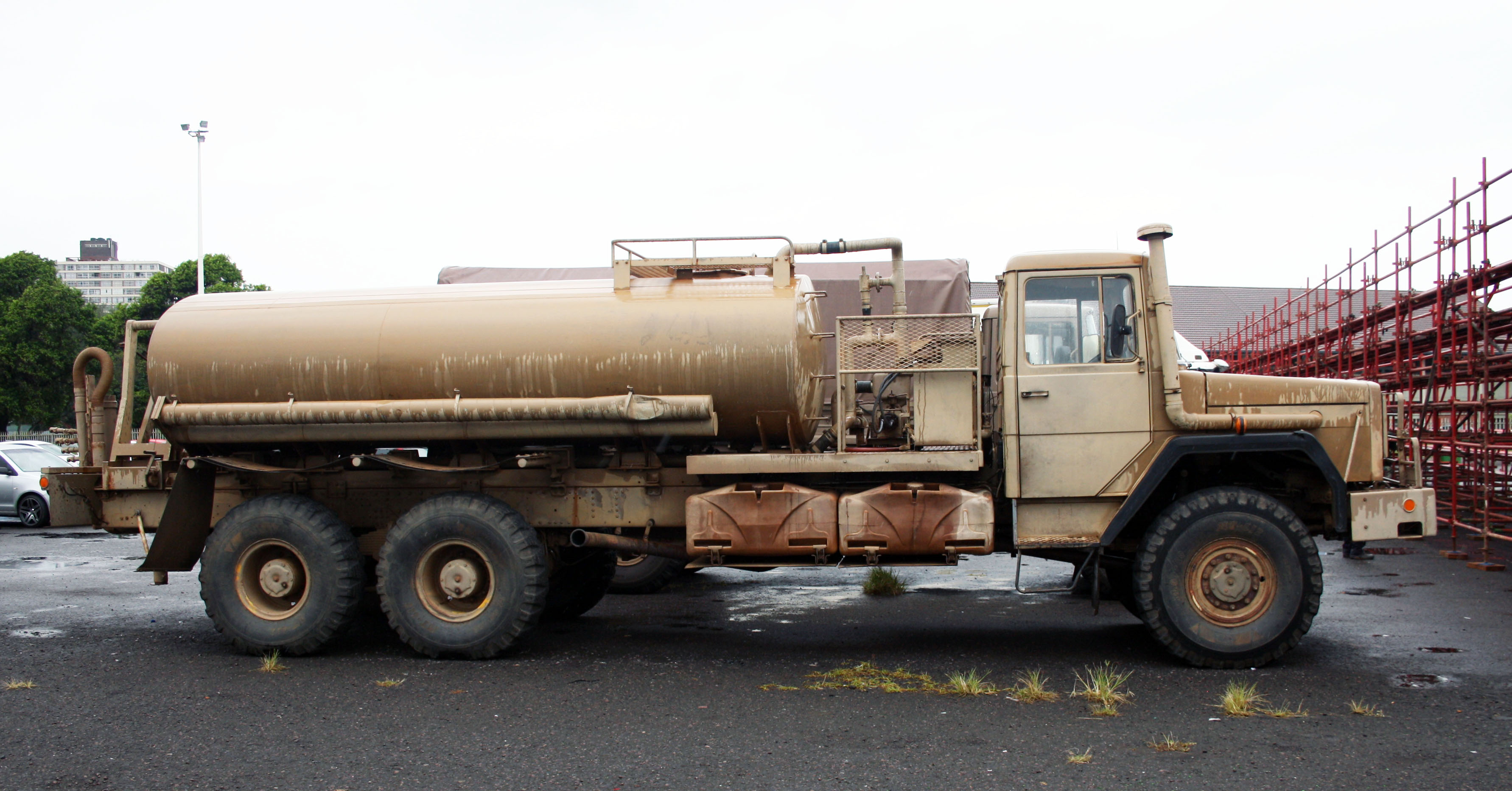 South African Army Samil 100 tanker